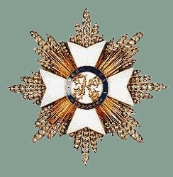 Star of Knight Grand Cross of the Order of Kamehameha I